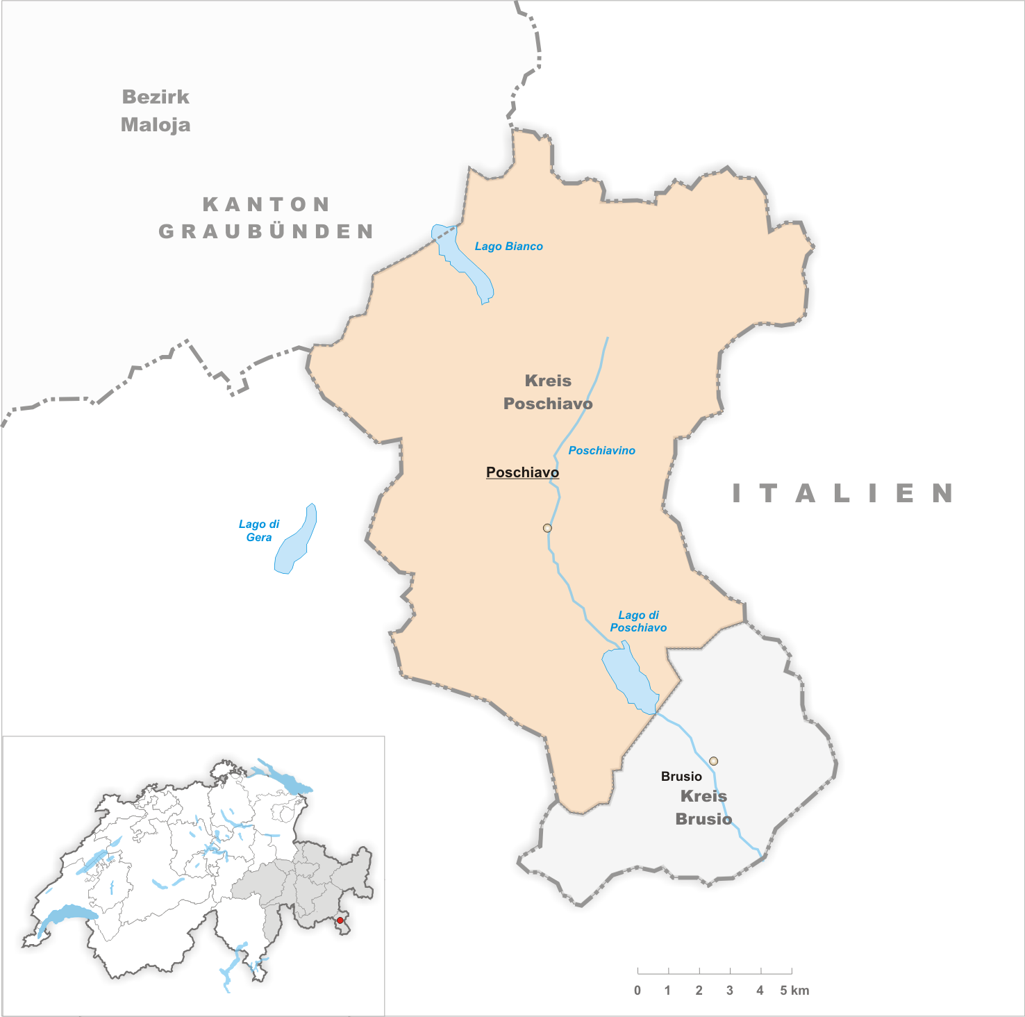 Municipality Poschiavo